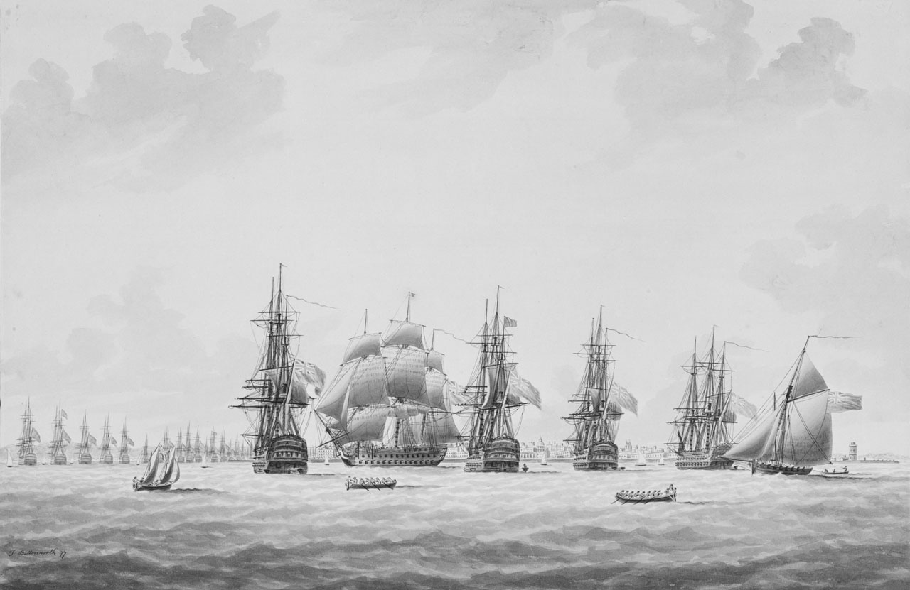 Work by Thomas Whitcombe showing the British blockading squadron off Cadiz in June 1797. Pictured from left to right are HMS Bellerophon, HMS Orion, HMS Theseus, HMS Colossus and HMS Irresistible